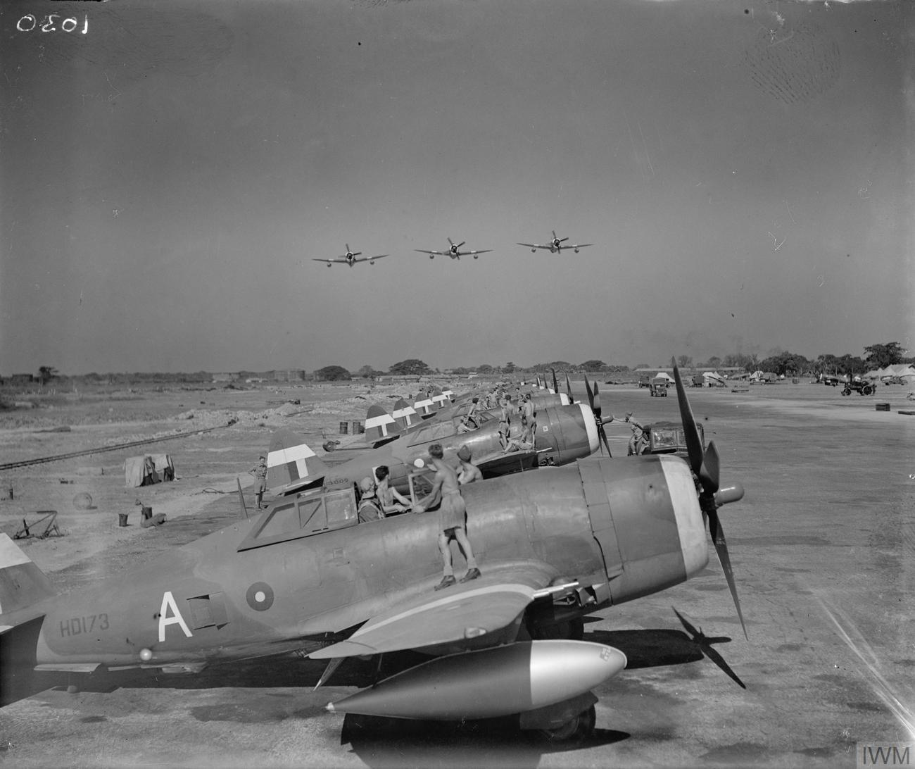 American Aircraft in Royal Air Force Service 1939-1945- Republic Thunderbolt. Thunderbolt Mark Is (HD173 ‘A’ nearest) of No. 135 Squadron RAF, lined up at Chittagong, India, while being overflown by three other Thunderbolts.